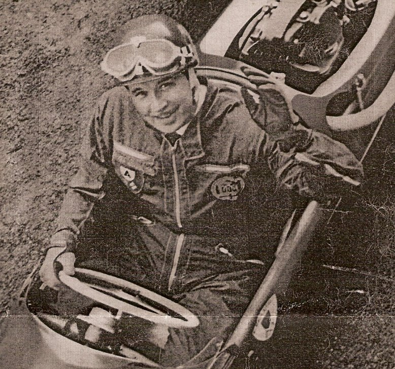 Finnish racing driver Curt Lincoln in a Cooper in 1950's.